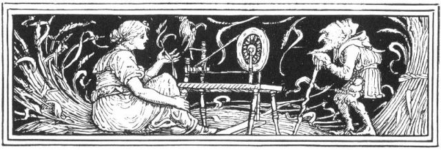 Illustration of Rumpelstiltskin from Household Stories by the Brothers Grimm, translated by Lucy Crane, illustrated by Walter Crane, first published by Macmillan and Company in 1886.